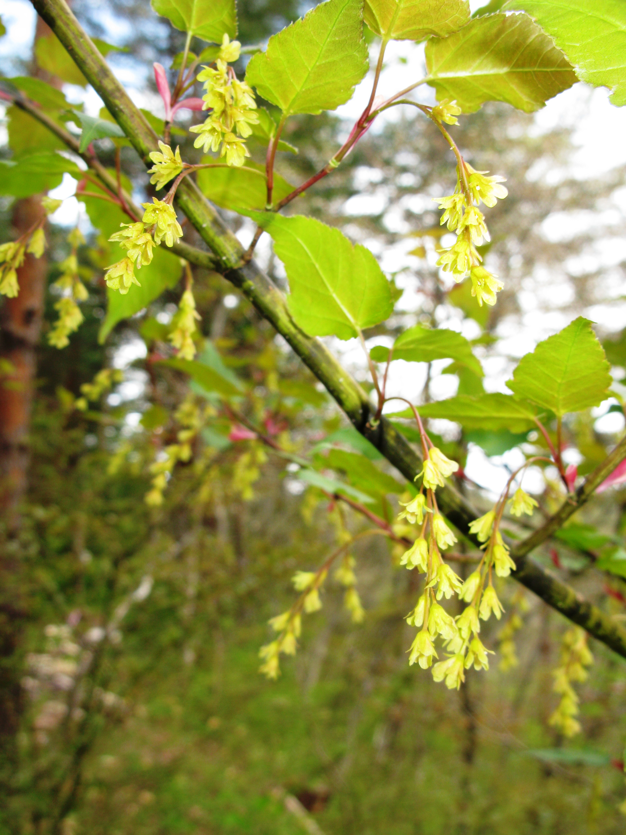 Acer crataegifolium, Aizu area, Fukushima pref., Japan